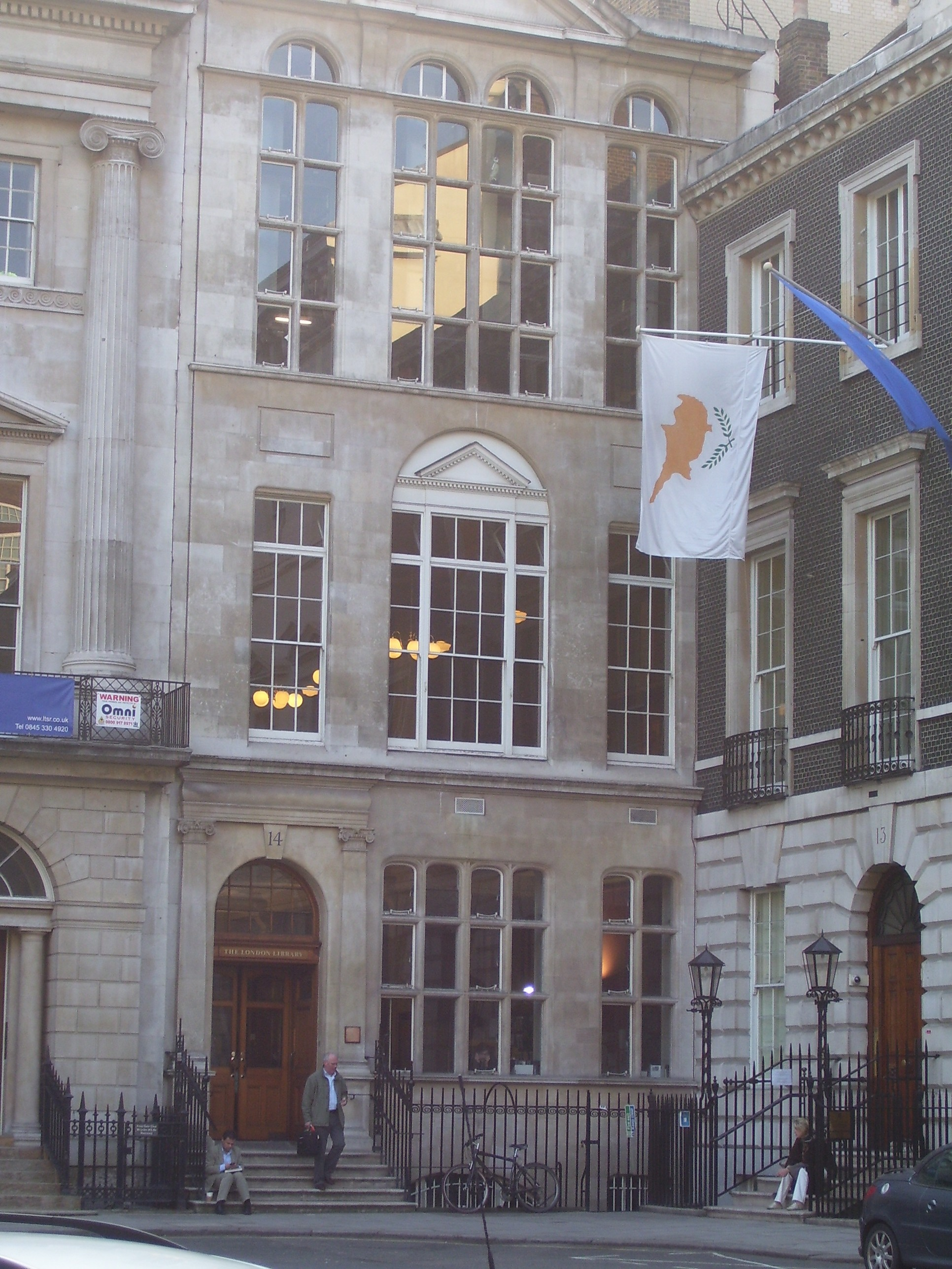 London Library - formerly the Free Trade Club. London.